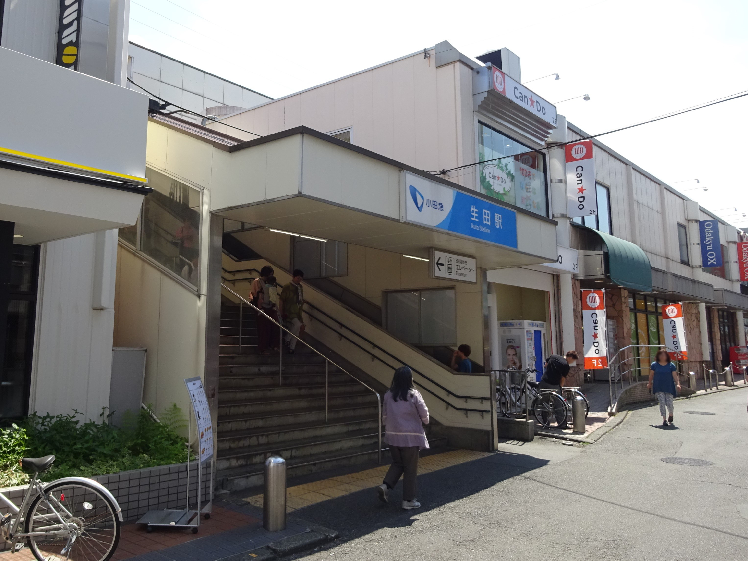 North entrance of Ikuta Station